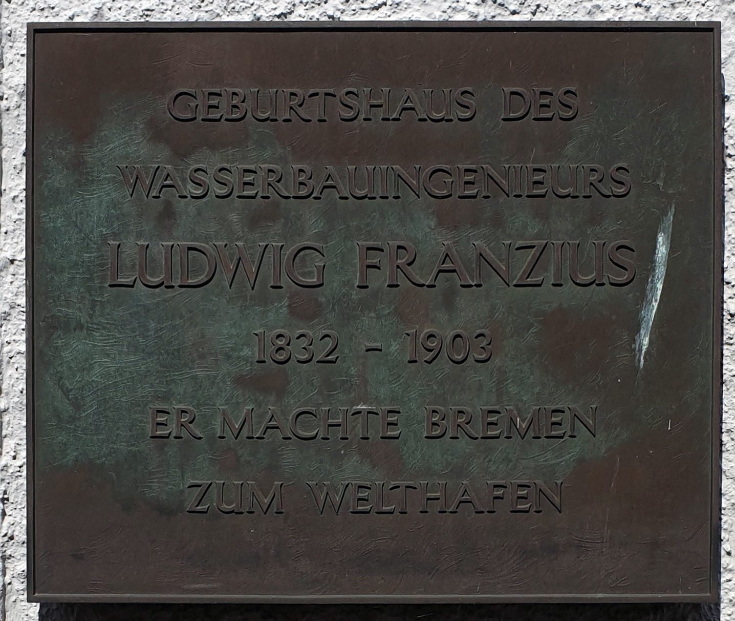 Memorial plaque, Ludwig Franzius, Mühlenstraße 11, Wittmund, Deutschland